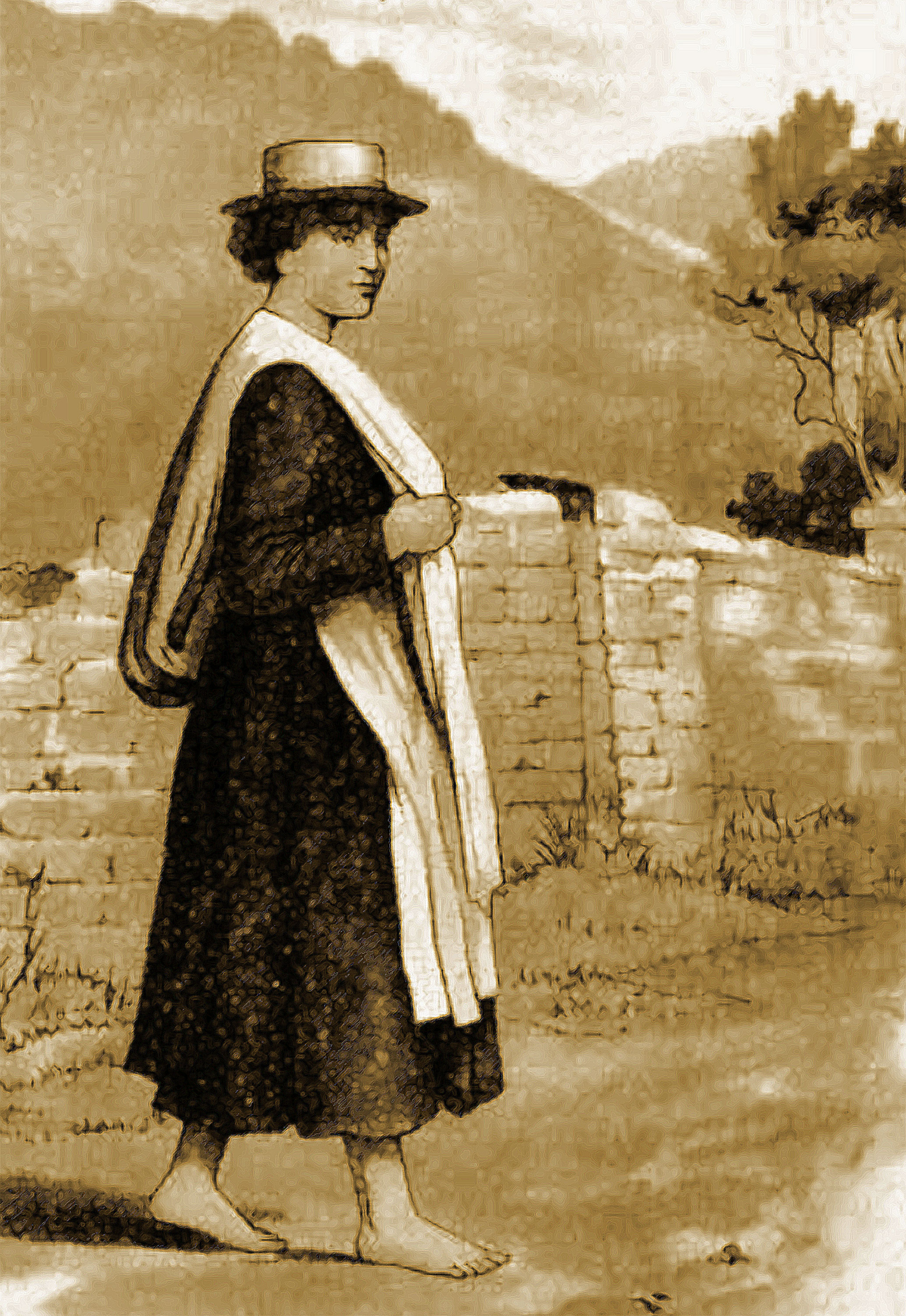 Cover of a book ;1C3 )/?=EW. C!1E7!1W. ("Mary Jones"; Tp and text in Russian). Berlin, Britanskoe i Inostrannoe Bibleiskoe Obshchestvo, (British and Foreign Bible Society) no date (published before 1917). 31p. 16cm. Image reconstructed in photoshop by Brian York. Previously published in John Morgan Jones and William Morgan, Y Tadau Methodistaidd, vol. 2 (1897)